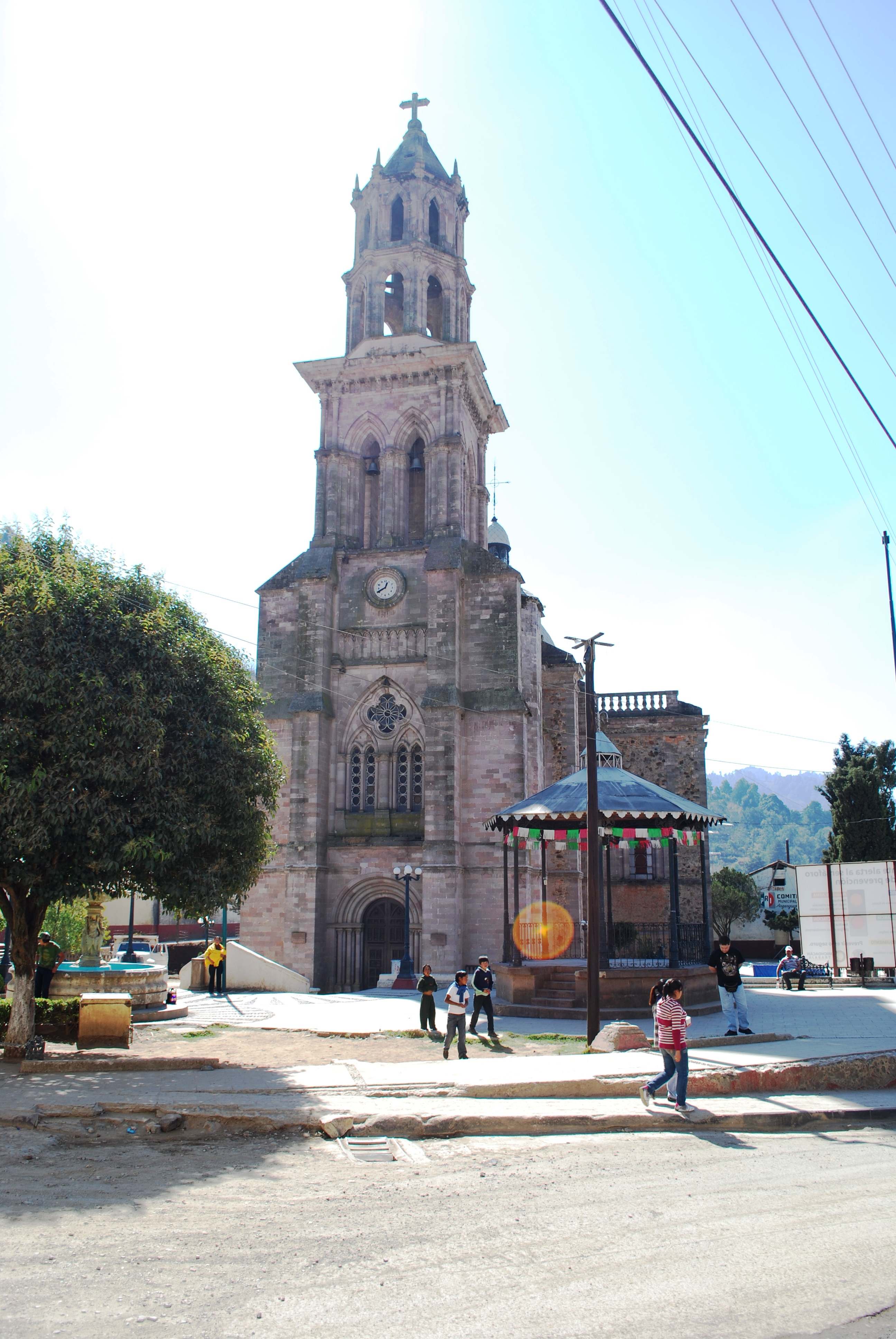 Facade of the Inmaculada Concepcion church in Angangueo, Michoacán